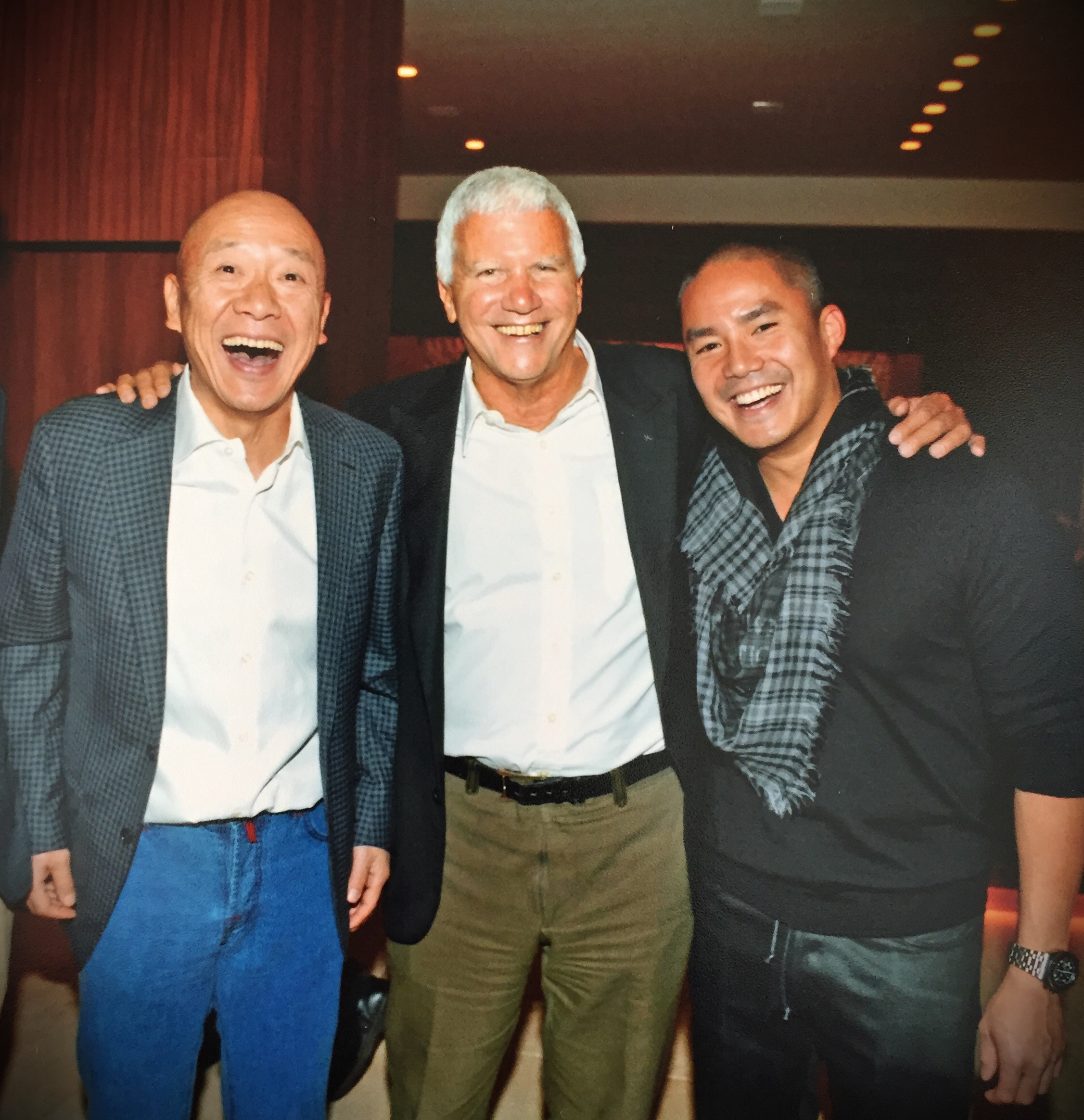 Kappo Masa Opening Night.